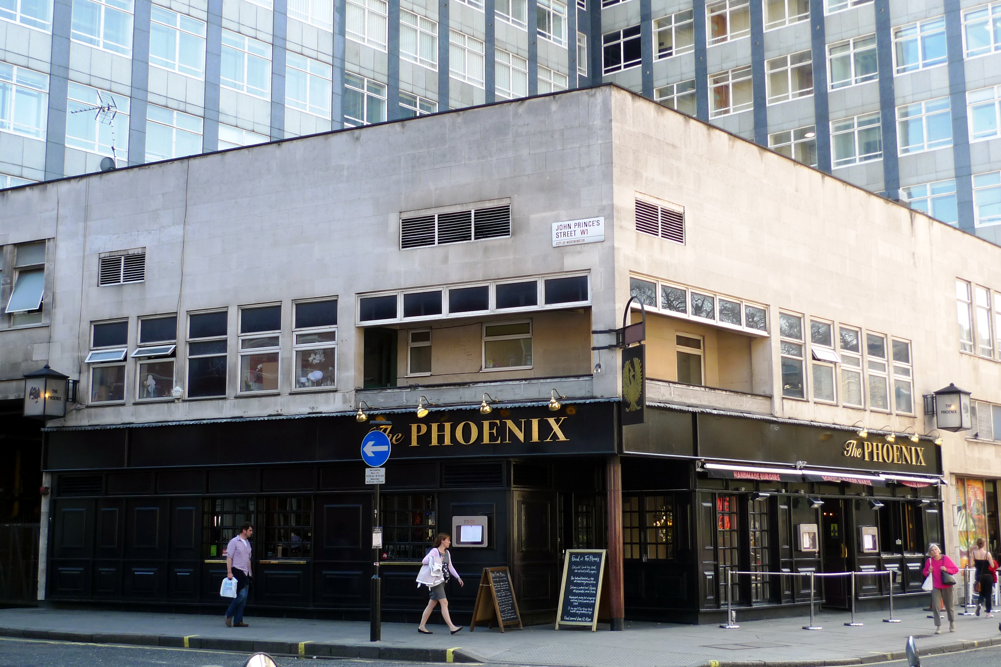 On the north-east corner of the John Lewis building, by Cavendish Square. It's okay, but gets filled quickly. It also hosts club nights. (Older photo of it. Address: 37 Cavendish Square (formerly at Princes Street before rebuilding in 1958). Owner: Mitchells and Butlers [Metro Professionals] (website); Taylor Walker (former). Links: Fancyapint Beer in the Evening Qype